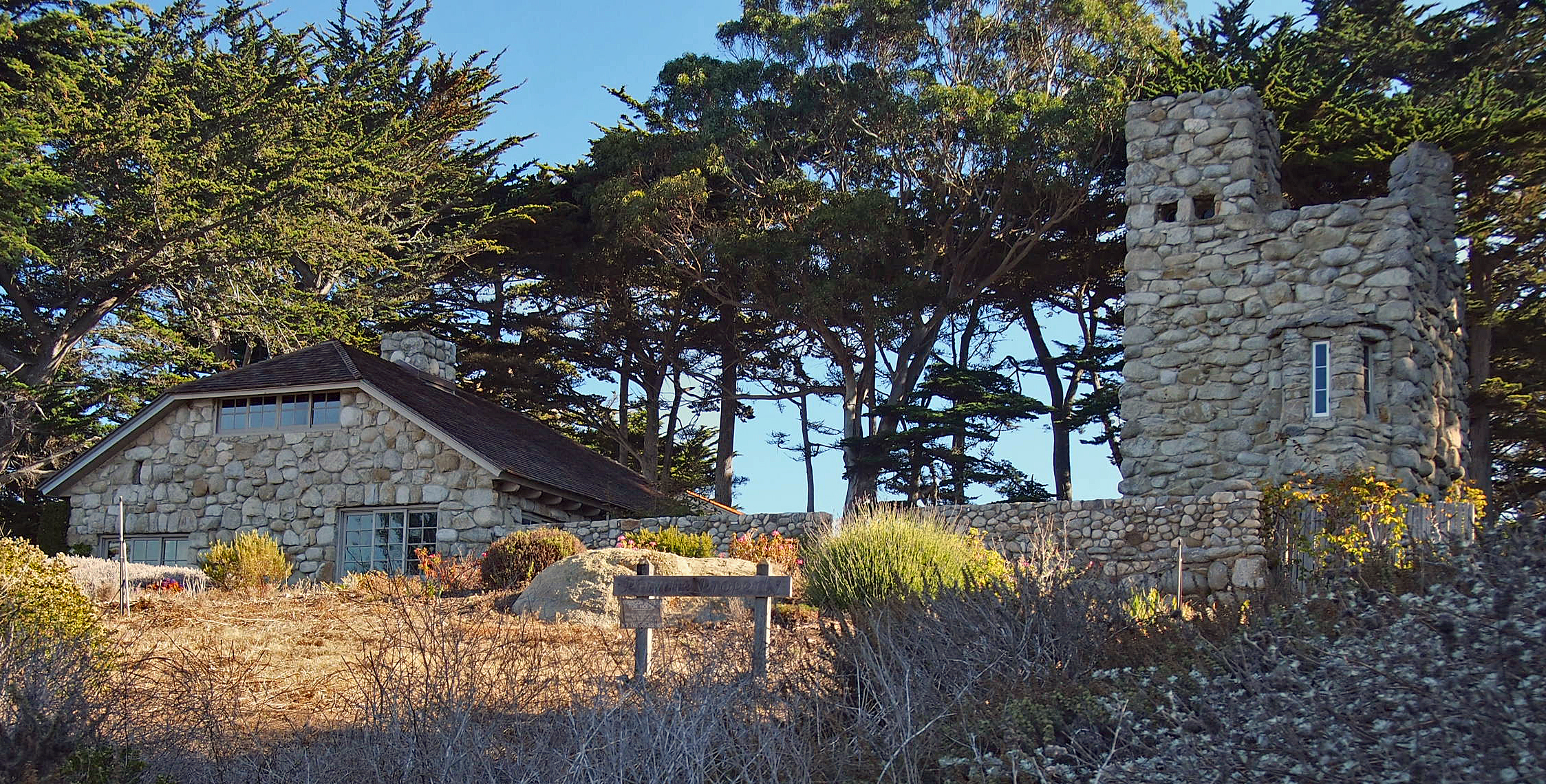 Tor House and Hawk Tower (Robinson Jeffers House), 26304 Ocean View Ave, Carmel-by-the-Sea, California, USA. Viewed from the southwest.